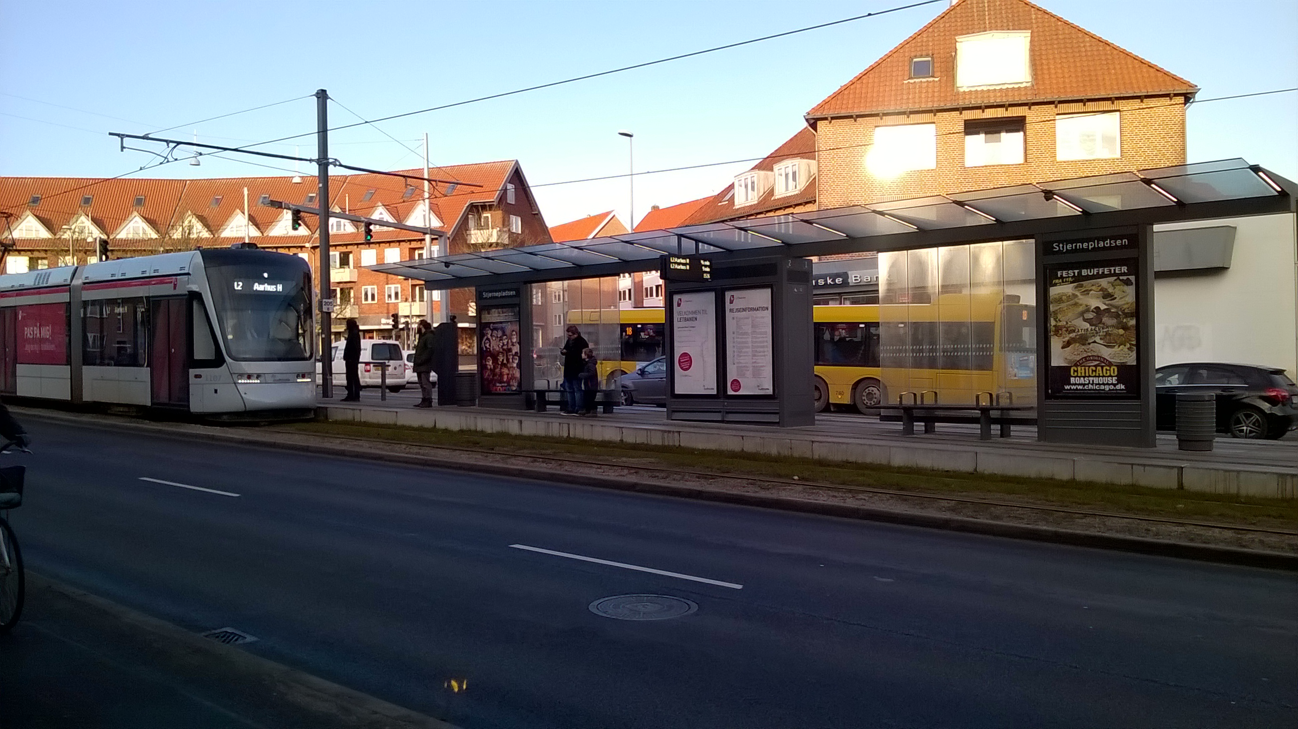 Stjernepladsen Station